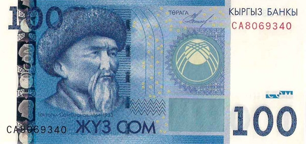 100 som 2009 obverse